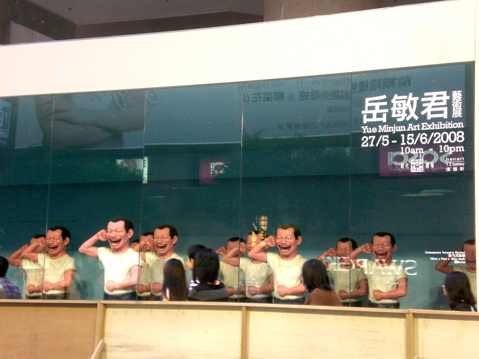 Contemporary Terracotta Warriors. Yue Minjun, Art exhibition 27/05 - 15/06/2008. 182x76x60 cm (each). Polychrome bronze.